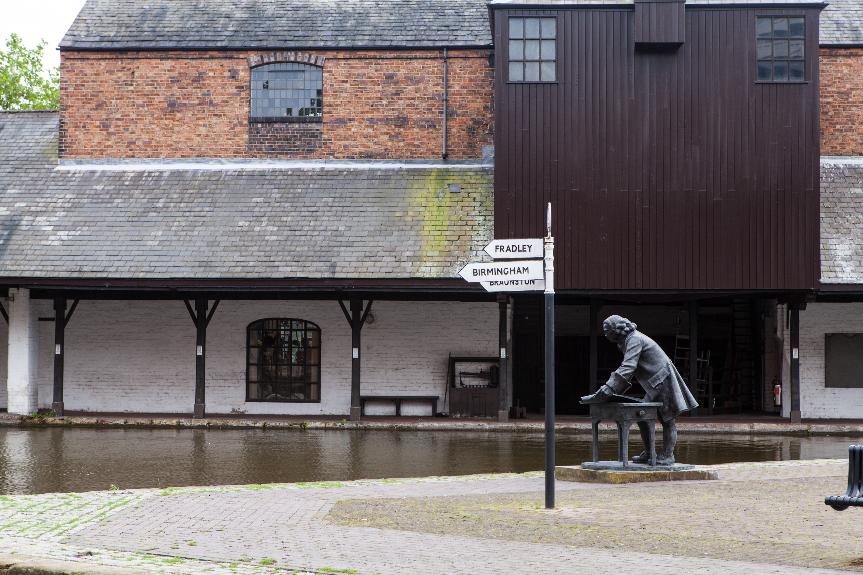 B4 - Coventry Canal Basin in Coventry, UK